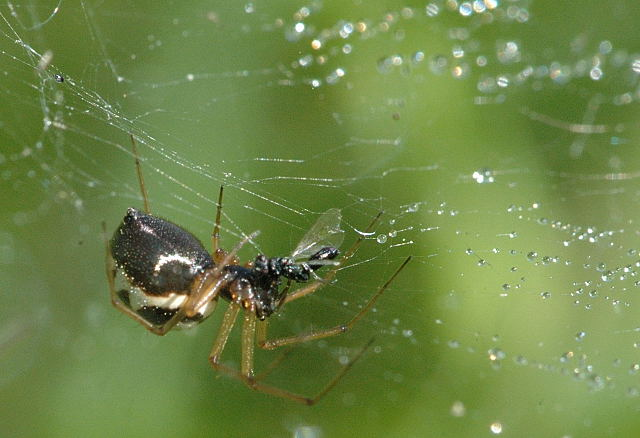 female Neriene peltata with prey, from Commanster, Belgian High Ardennes .